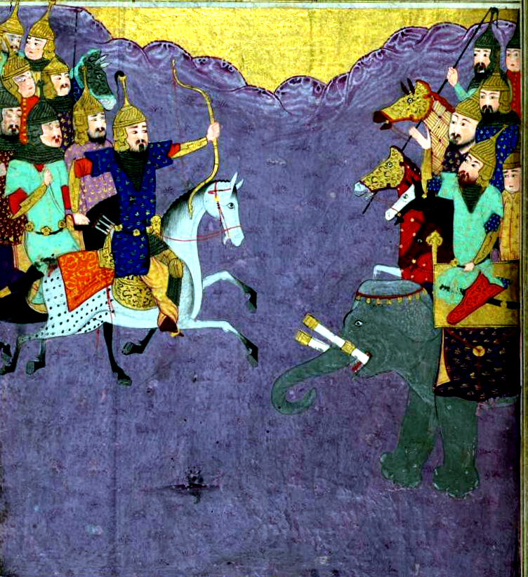 Muhammad Musá al-Mudhahhib - Alexander the Great Fights the Army of the King of China - Walters W606297A